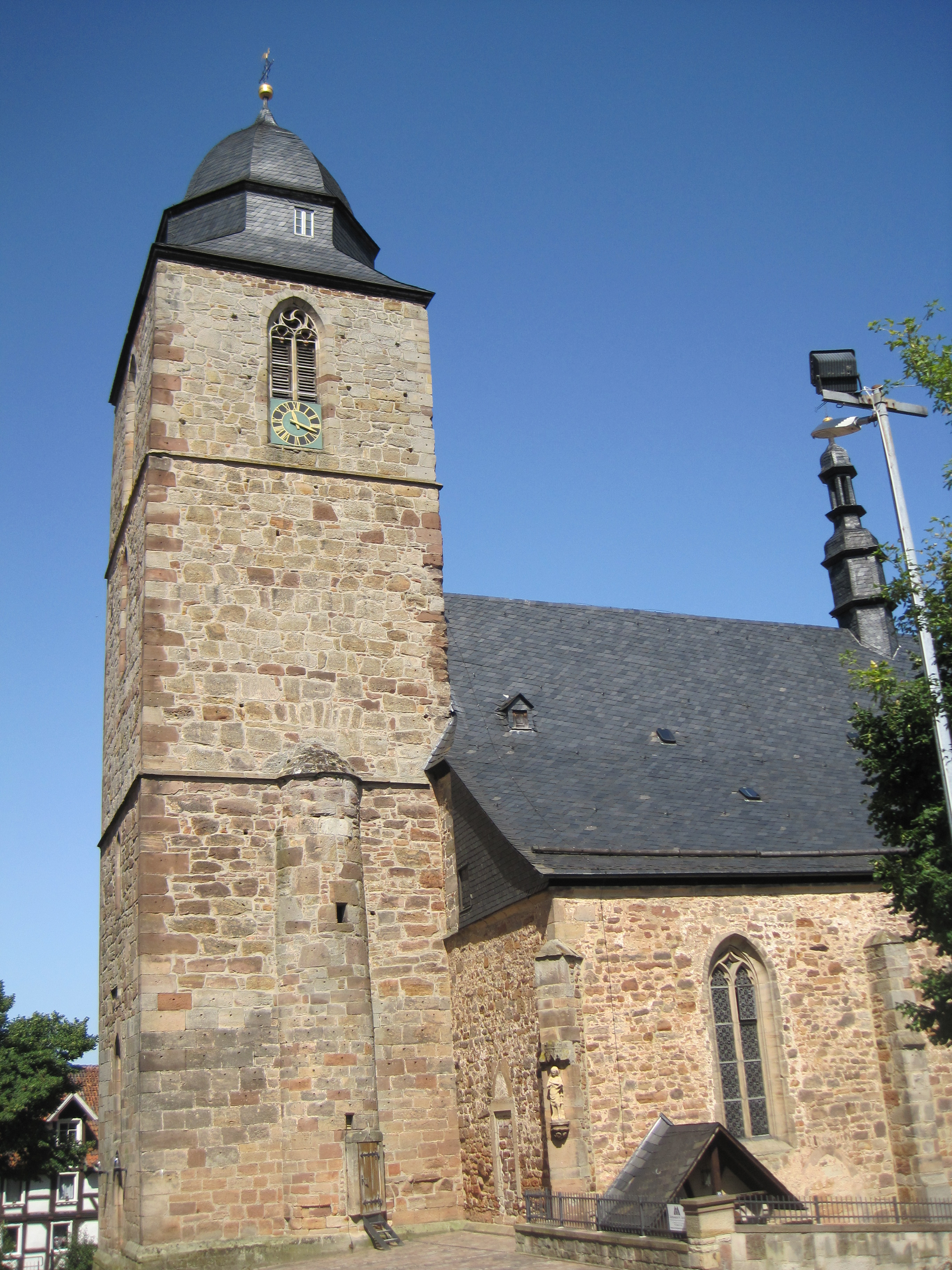 St. Crescentius, Naumburg (Hessen), Germany